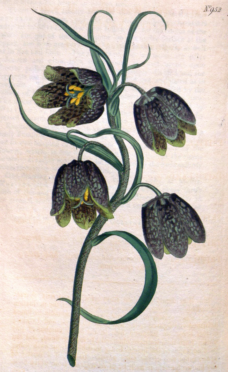 Fritillaria caucasica (subgenus Fritillaria, section Olostylea)